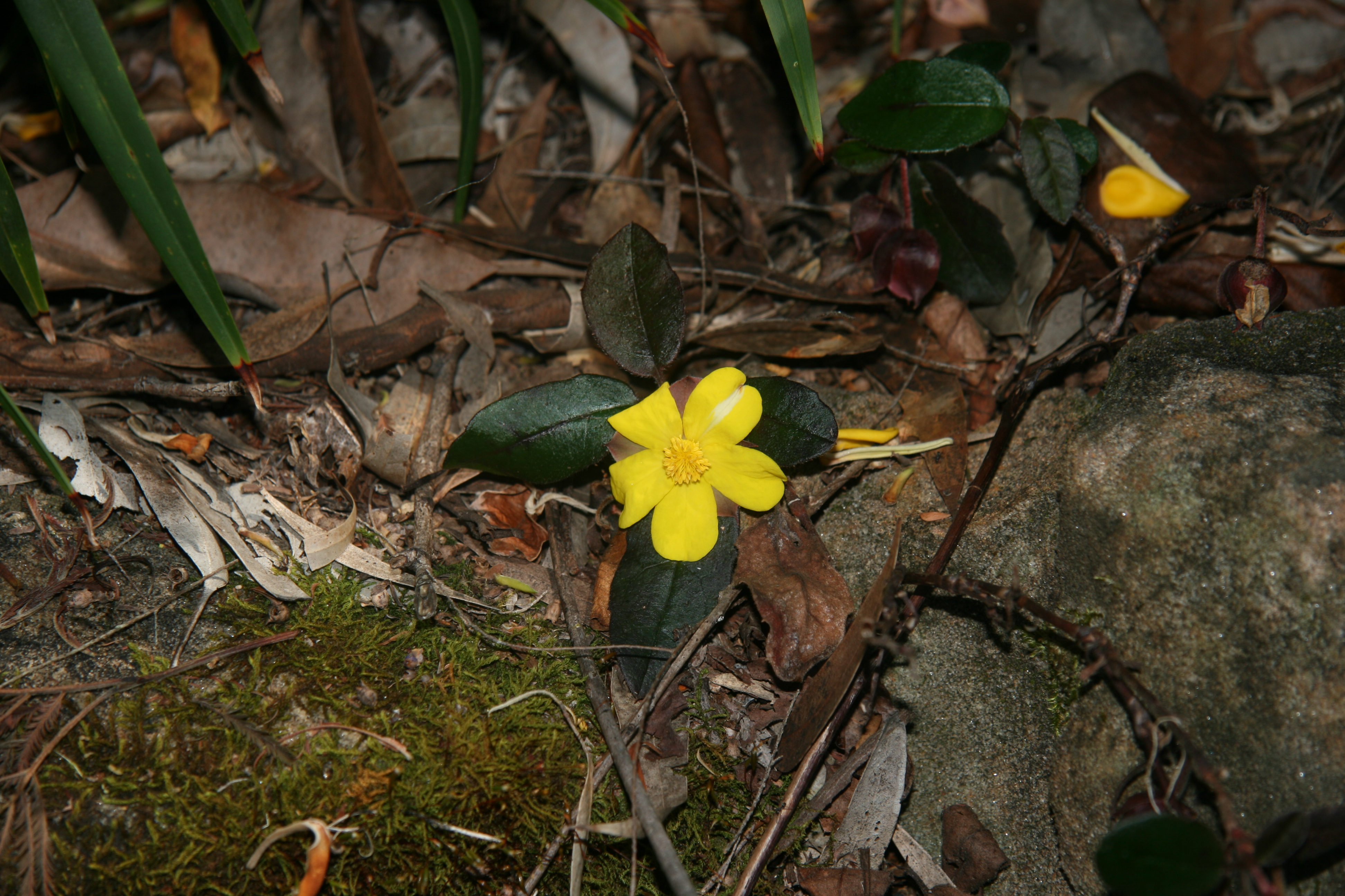 Hibbertia dentata, Sylvan Grove Native Garden, Picnic Point, NSW